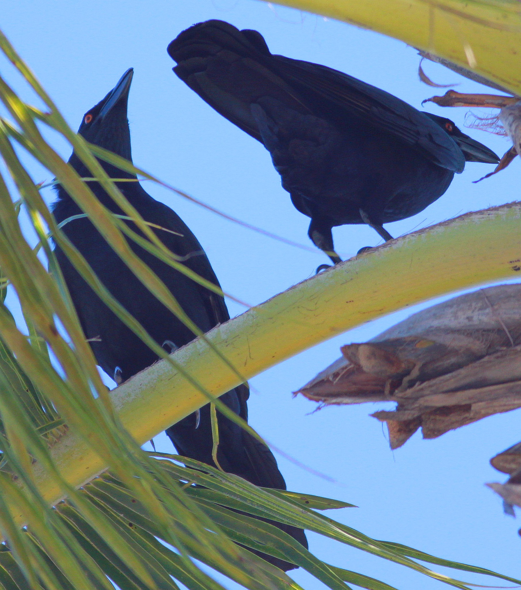 Probably, White-Necked Crow. Corvus leucognaphalus Dominican Republic, Saona Island.